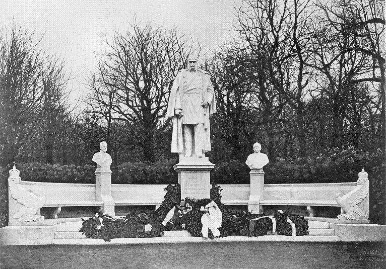 Monument-group № 32 in the former Siegesallee in Berlin, commemorating to William I, German Emperor. The bust on the left commemorates to Helmuth von Moltke the Elder, and the bust on the right to Otto von Bismarck. Sculptors, 1900: sidebusts by Reinhold Begas and the main-statue in all probability by August Kraus.